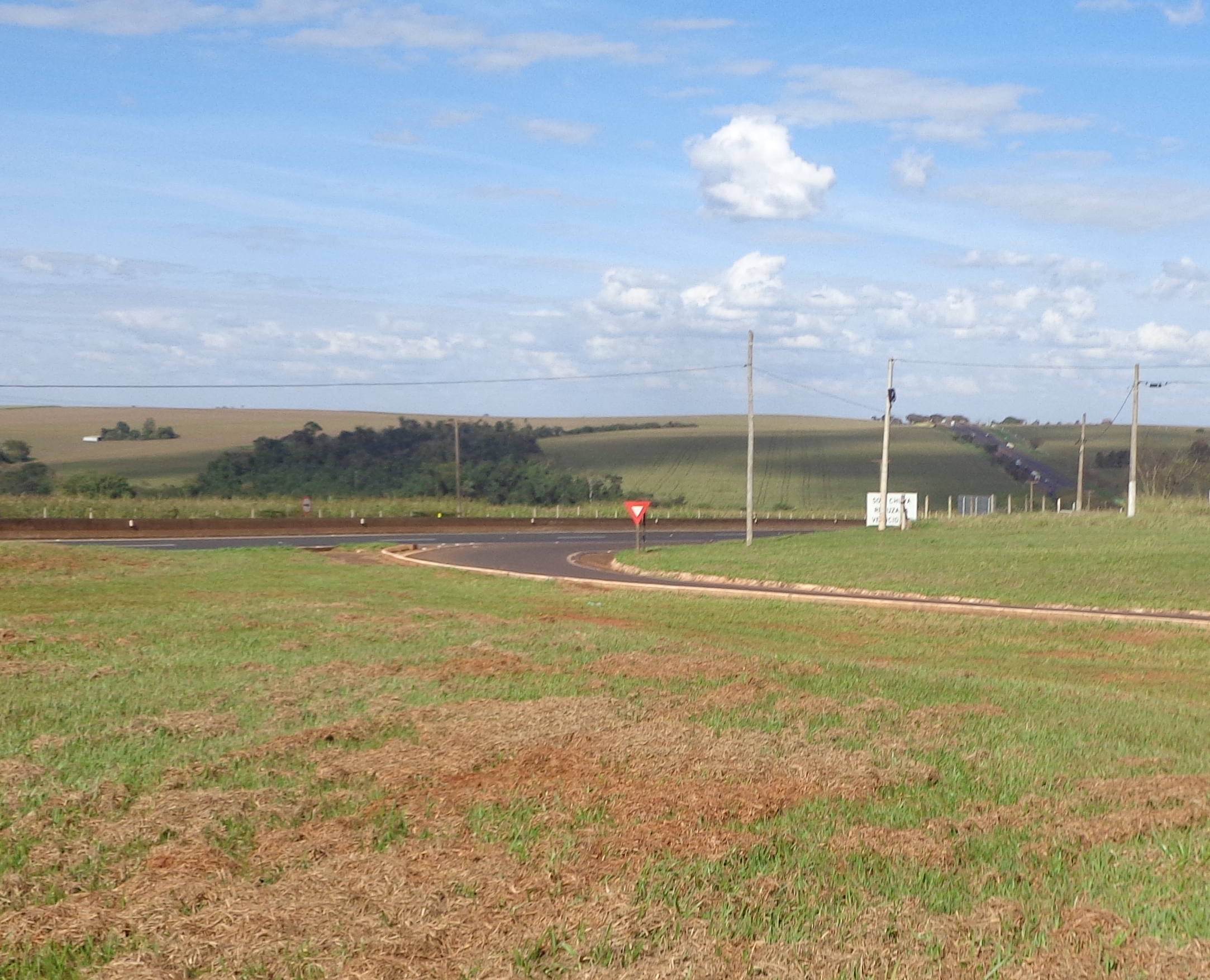 Rodovia Raposo Tavares (highway) in Salto Grande, SP.